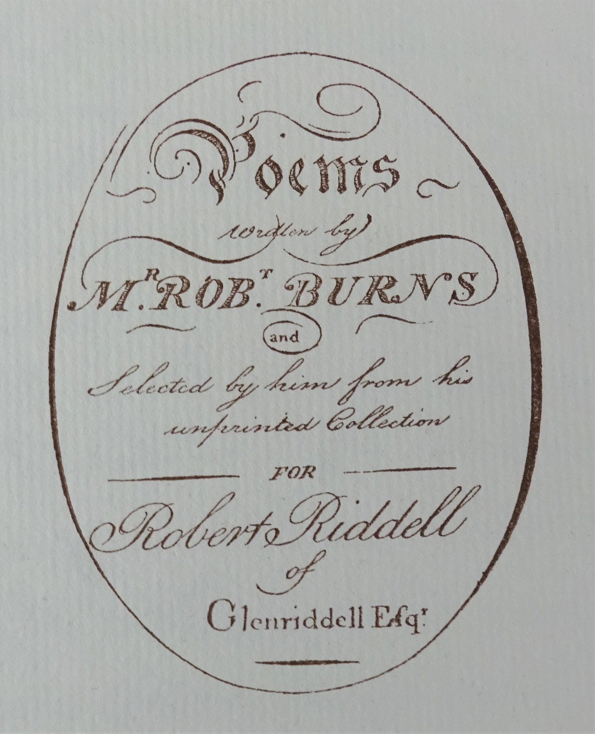 The 1914 Glenriddell Manuscript facsimile. Title page for Volume 1.